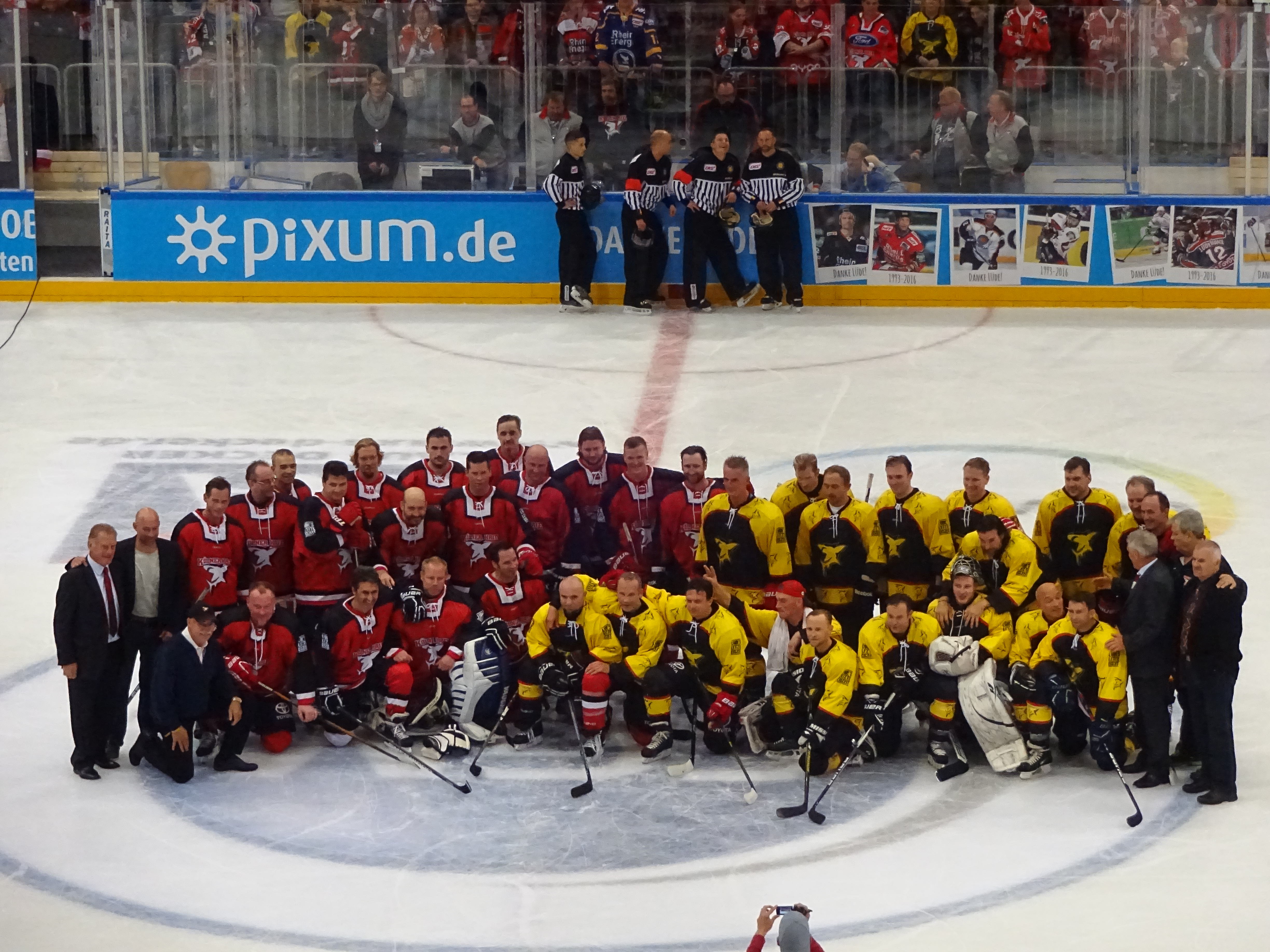 Participants of the Mirko Lüdemann testimonal.